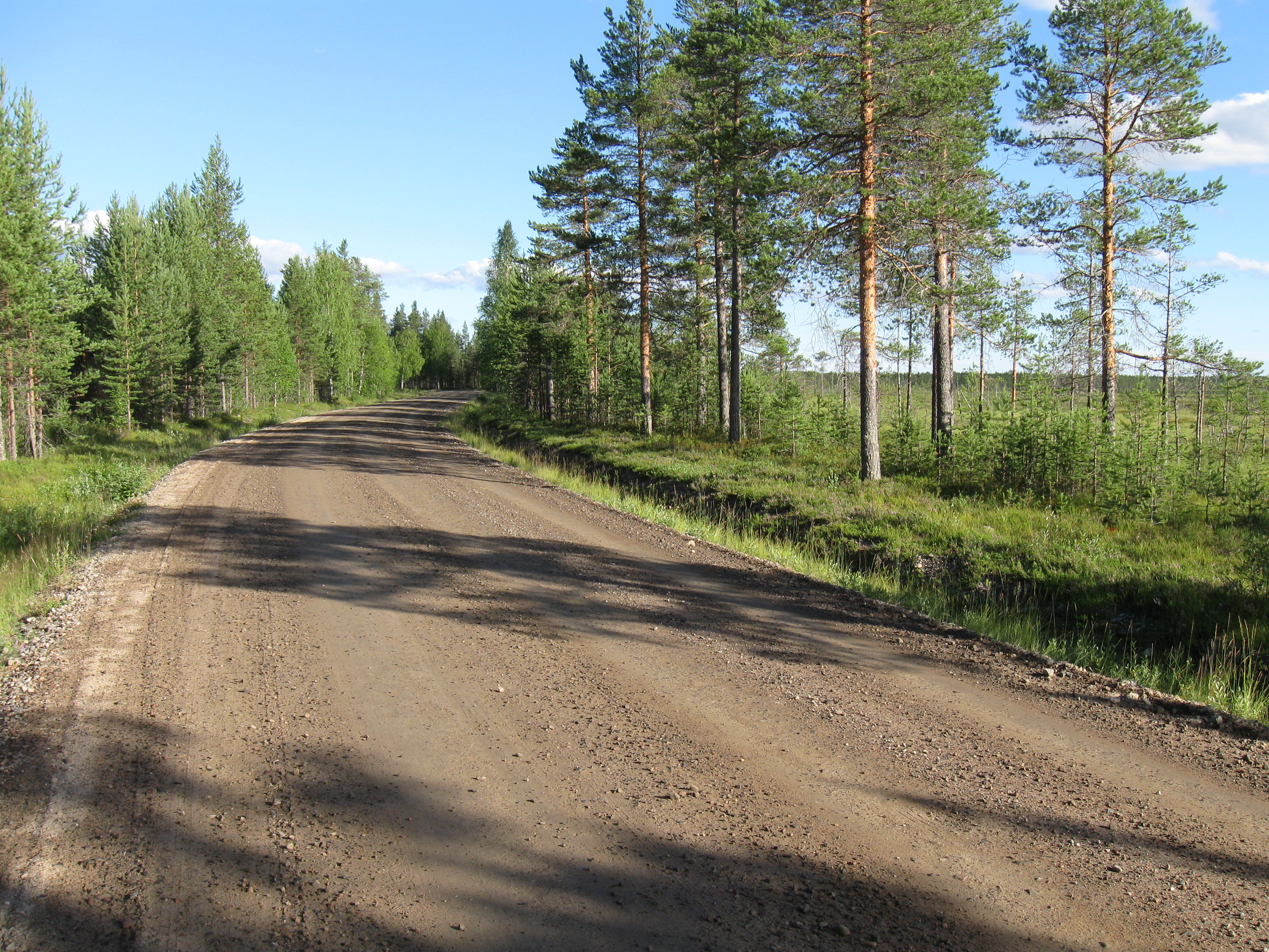 The local road Naamantie (road number 18607) at Leikonsuo in Naamankylä, Utajärvi, Finland, seen towards South-East.